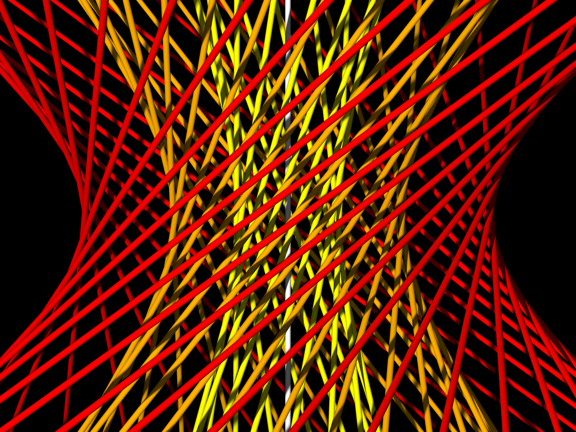 Skew lines on a family of nested hyperboloids. The lines form a fibration of three-dimensional projective space.